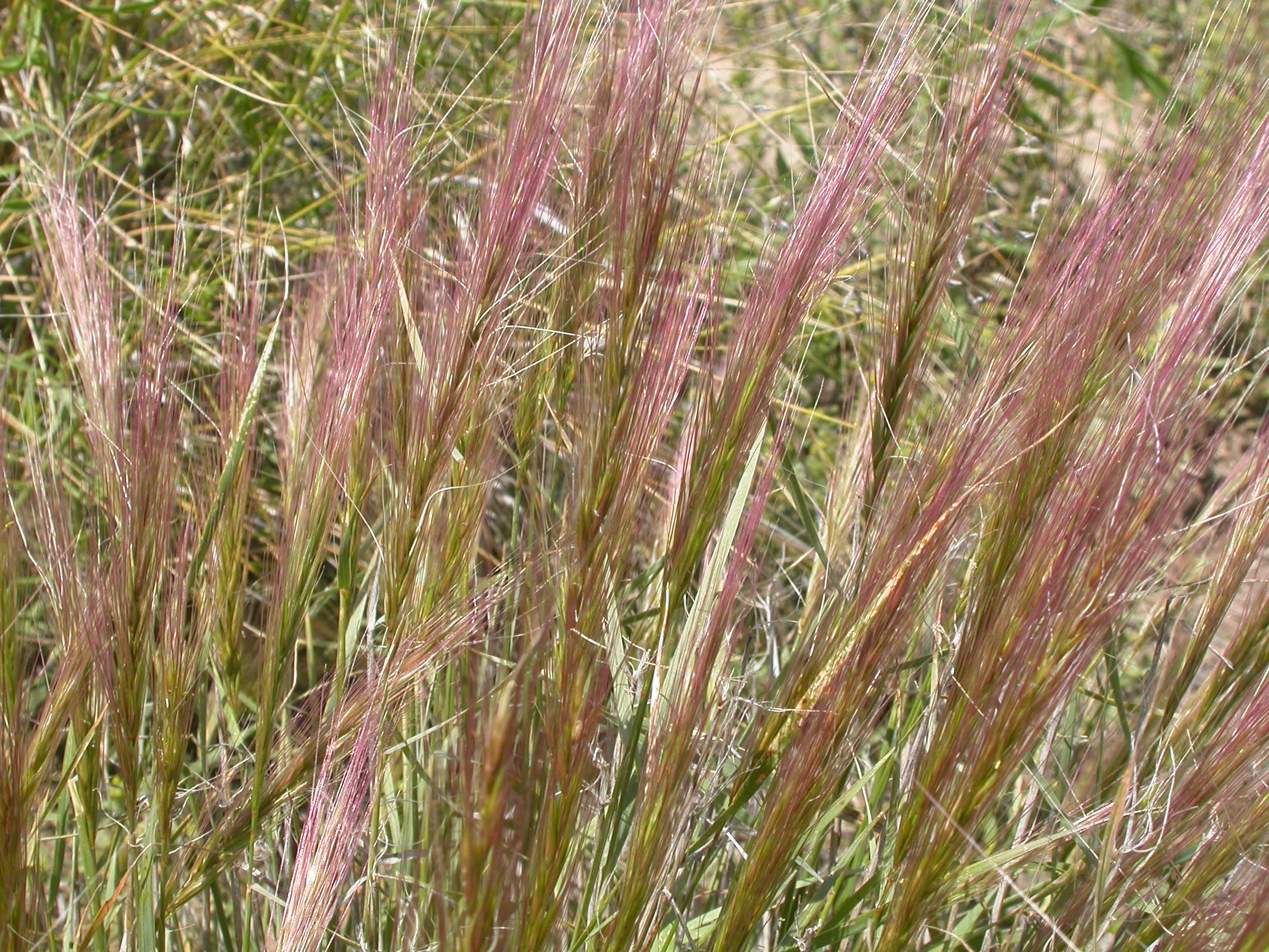 The purplish inflorescences are characteristic of this species during mid summer